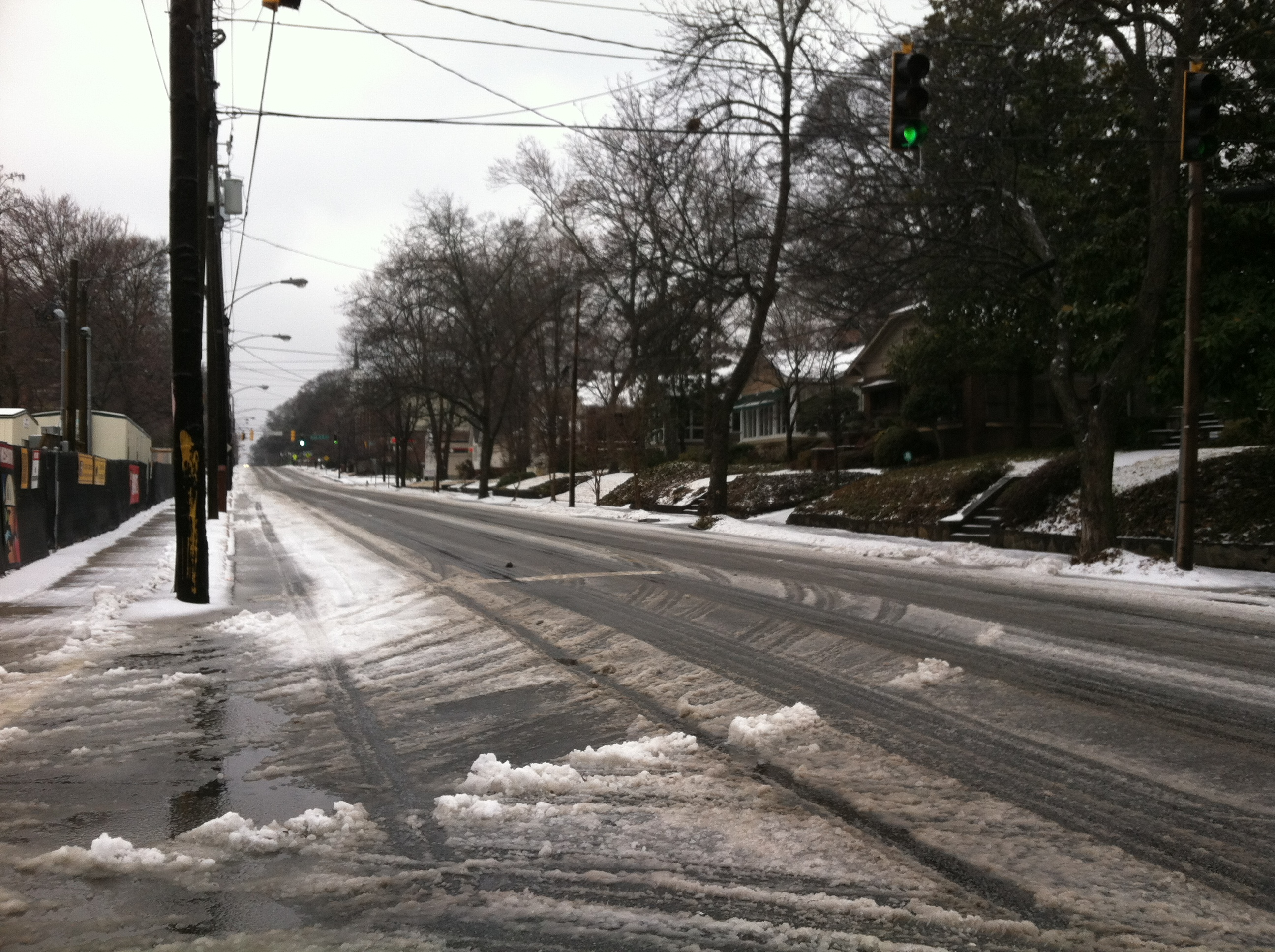 Atlanta streets covered in snow, February 2014